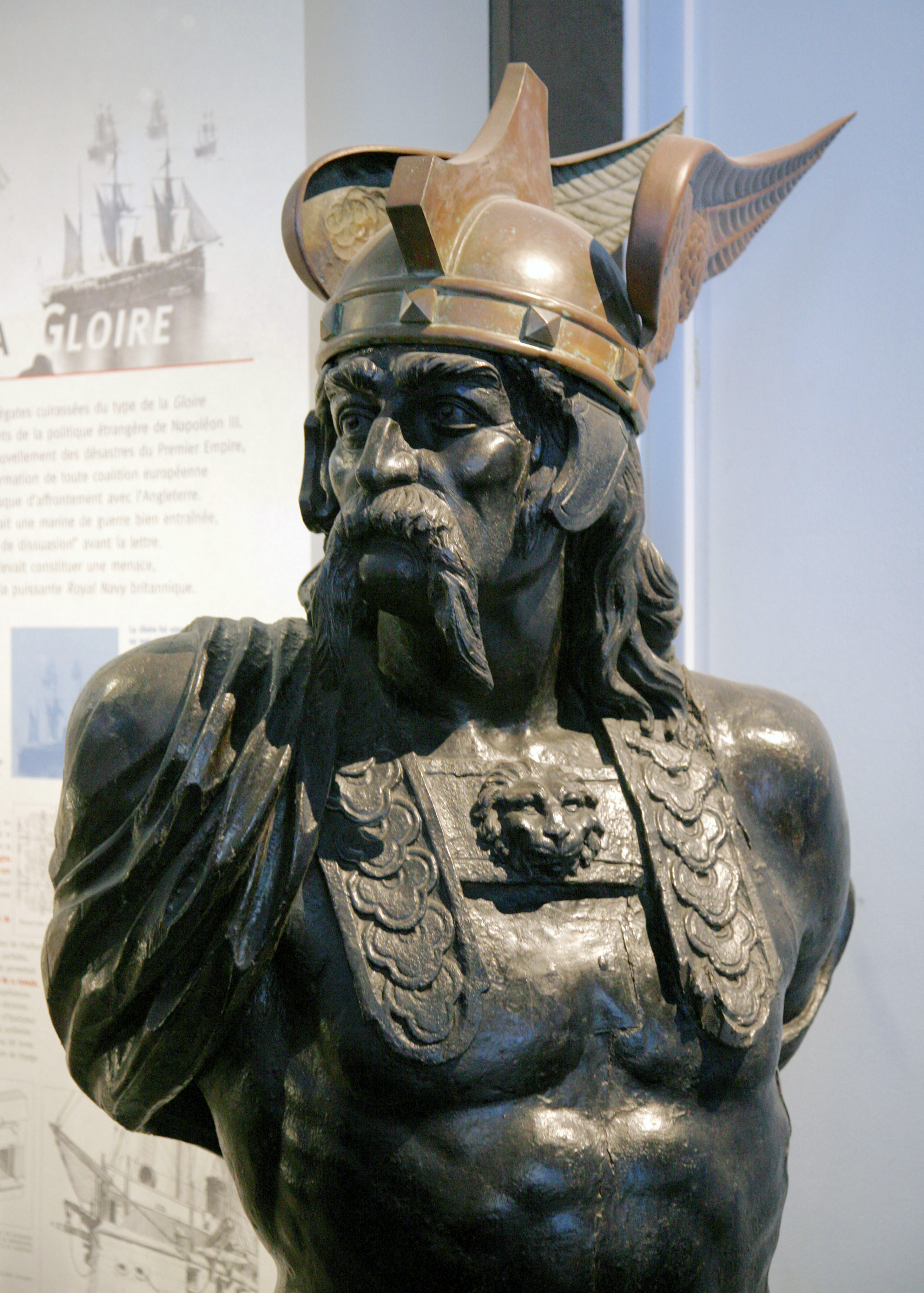 Artist Toulon Sculpture workshopDescription Figurehead of battleship BrennusCollection Musée national de la Marine Native nameMusée national de la MarineLocationParisCoordinates48° 51′ 43″ N, 2° 17′ 15″ E Established1827Web page control : Q1286709 VIAF: 19144648200974718522 ISNI: 0000 0001 2259 2914 LCCN: n50055356 Museofile: M5026 WorldCat institution QS:P195,Q1286709Accession number 41 OA 74Source/Photographer Med Figurehead of battleship Brennus